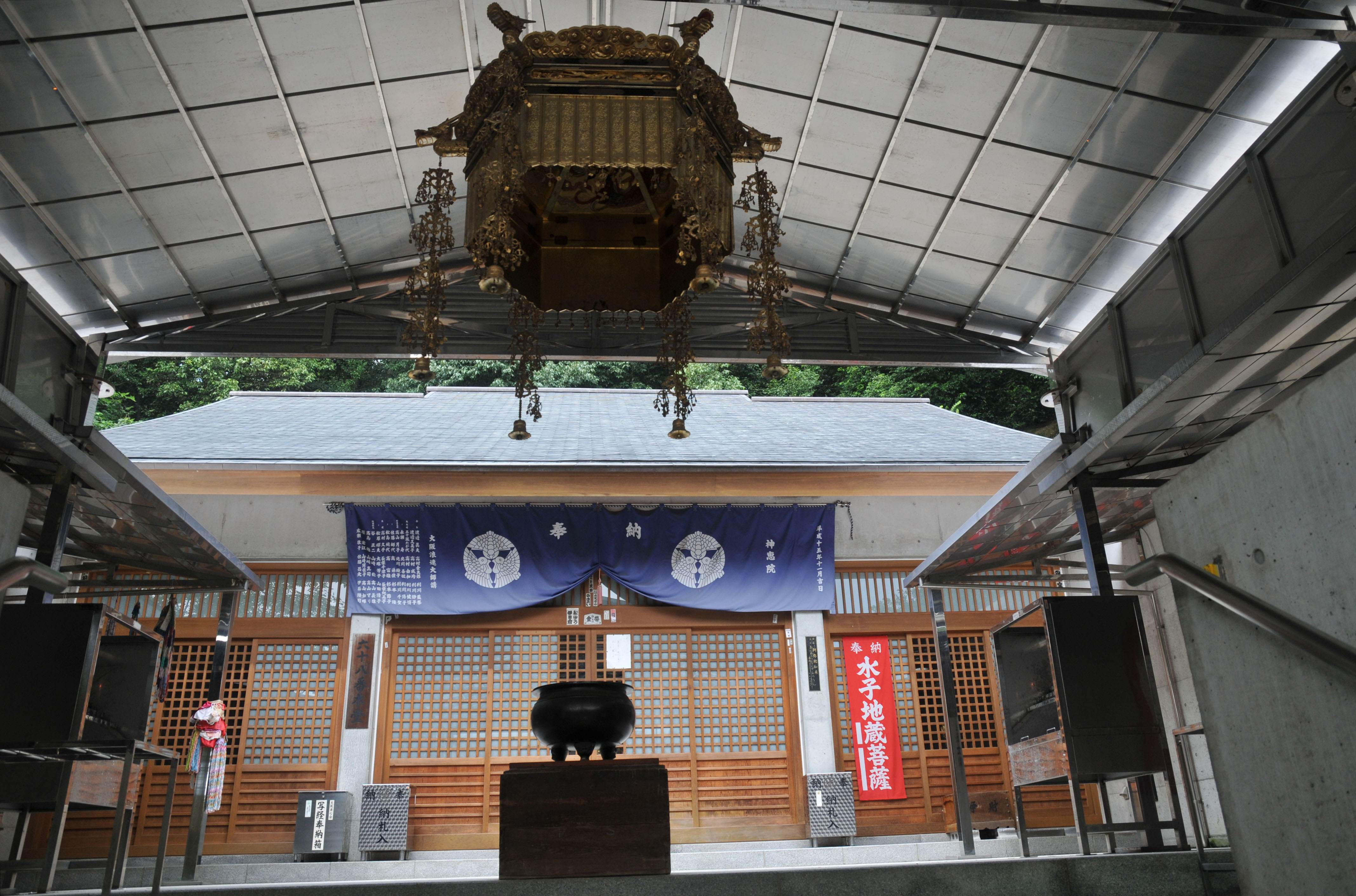 Main temple, Jinne-in